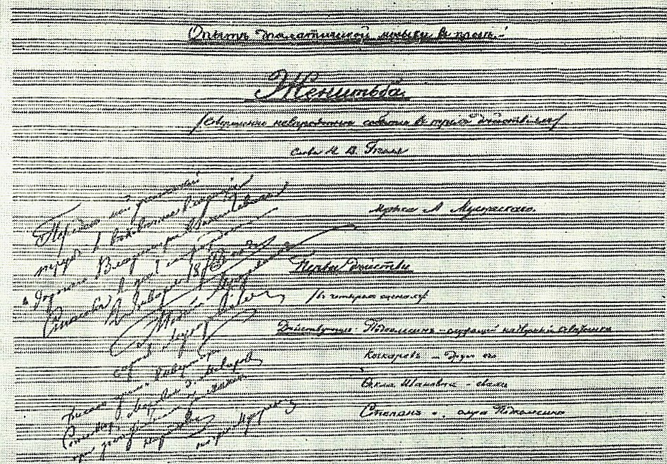 Title page of Zhenitba